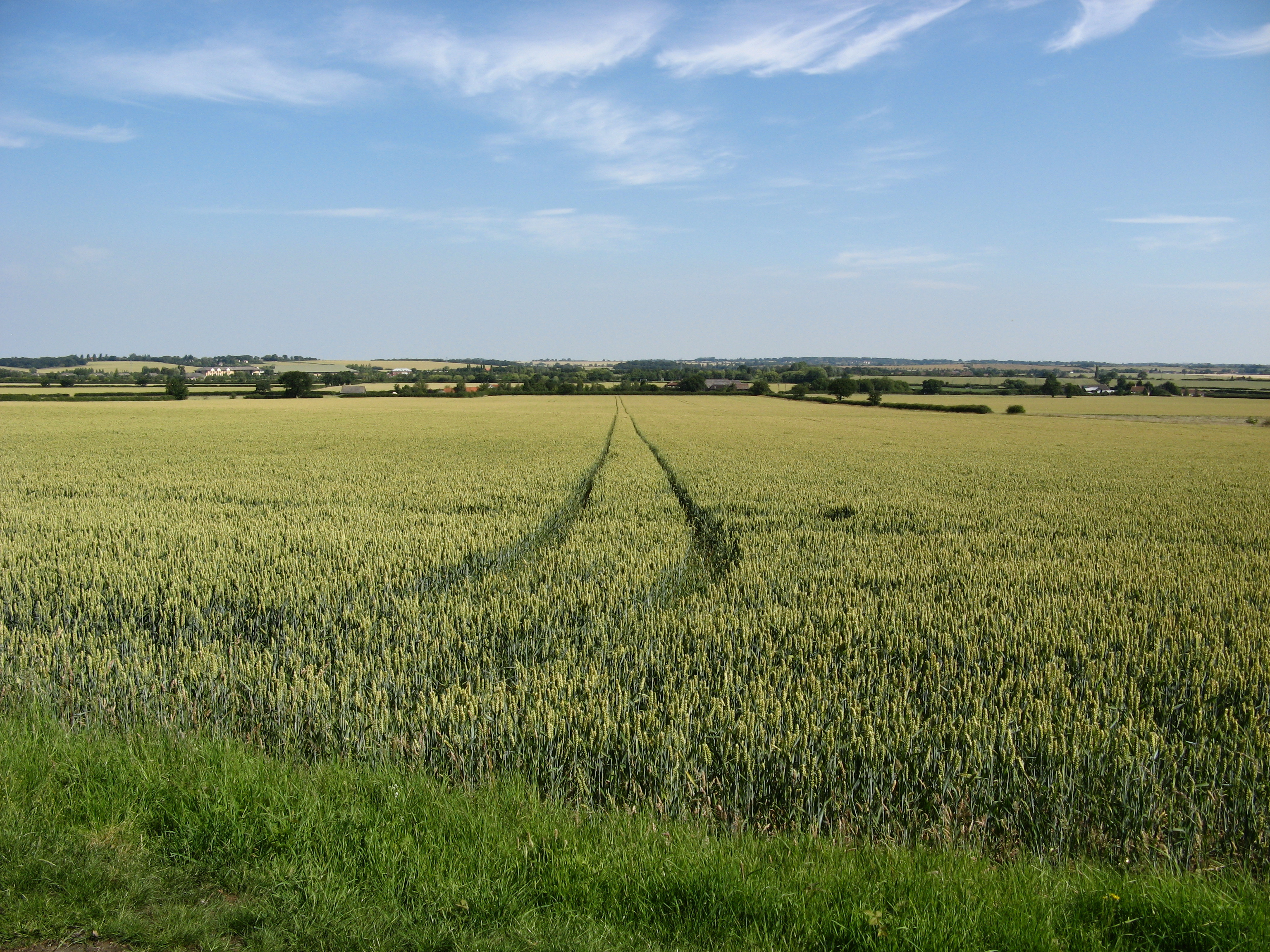 Wheat fields 1 km east of Tolleshunt d'Arcy and 2 km north-west of Tollesbury. Photo taken from the trackbed of the former Kelvedon and Tollesbury Light Railway, between Tolleshunt d'Arcy and Tollesbury stations. Three farms are in the mid-distance according to the OS map: Profits Farm, Spital Farm, Bridge Farm. In the distant left is the hotel "Crowne Plaza Resort Colchester - Five Lakes".